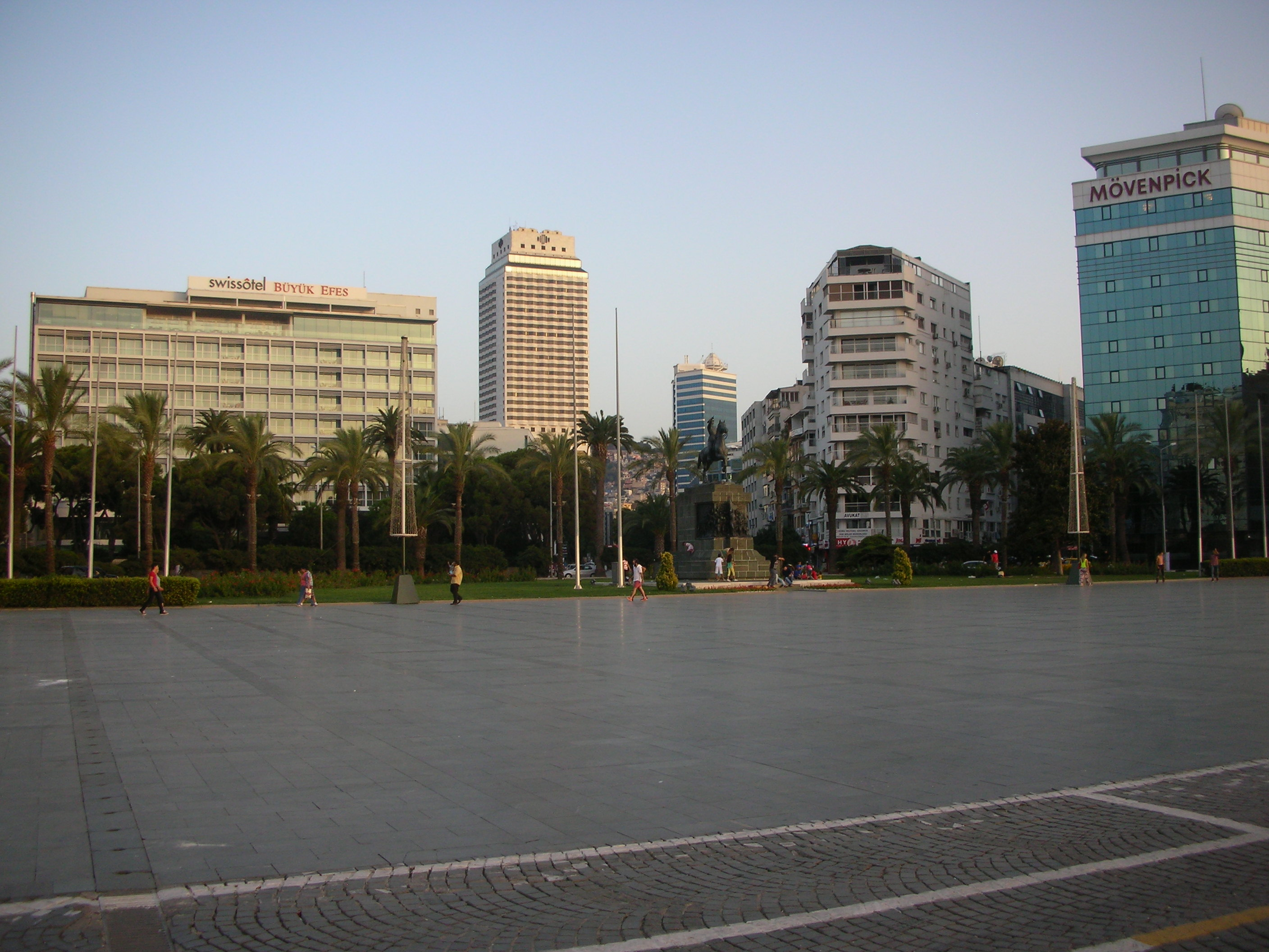 View of Cumhuriyet Square in Konak